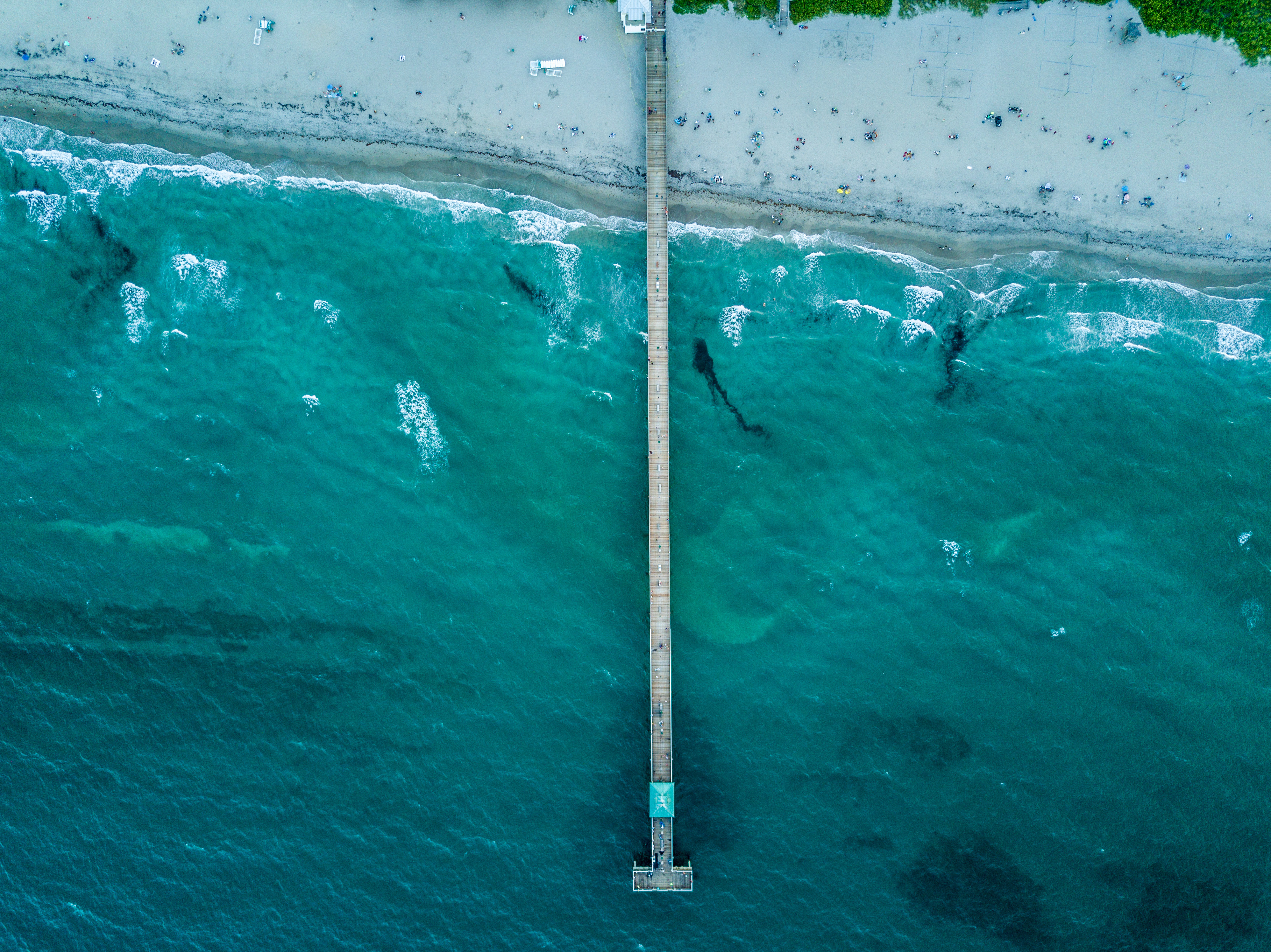 Arial shot of the Deerfield Beach Pier and reef system at Deerfield.